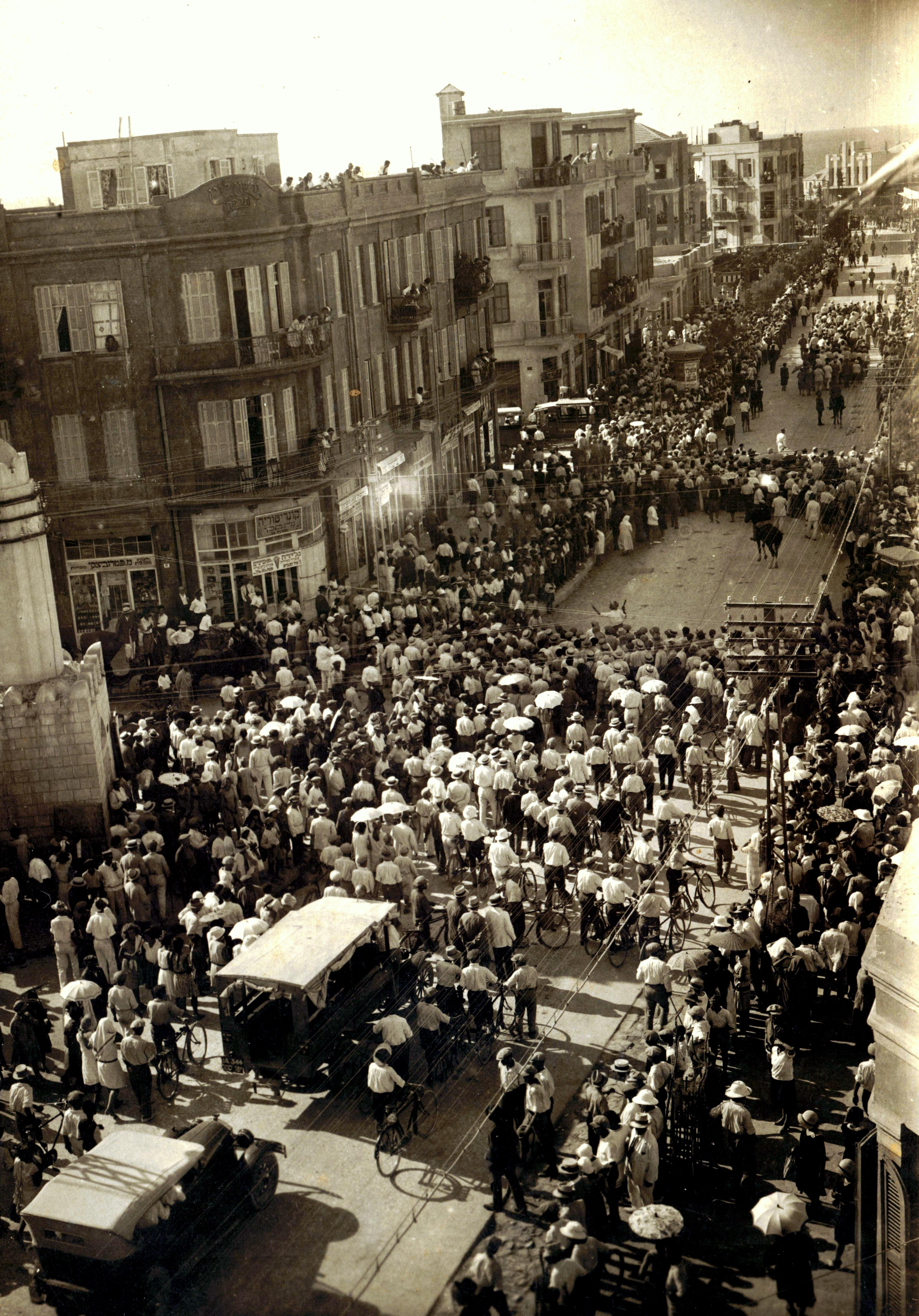 Geography of Israel